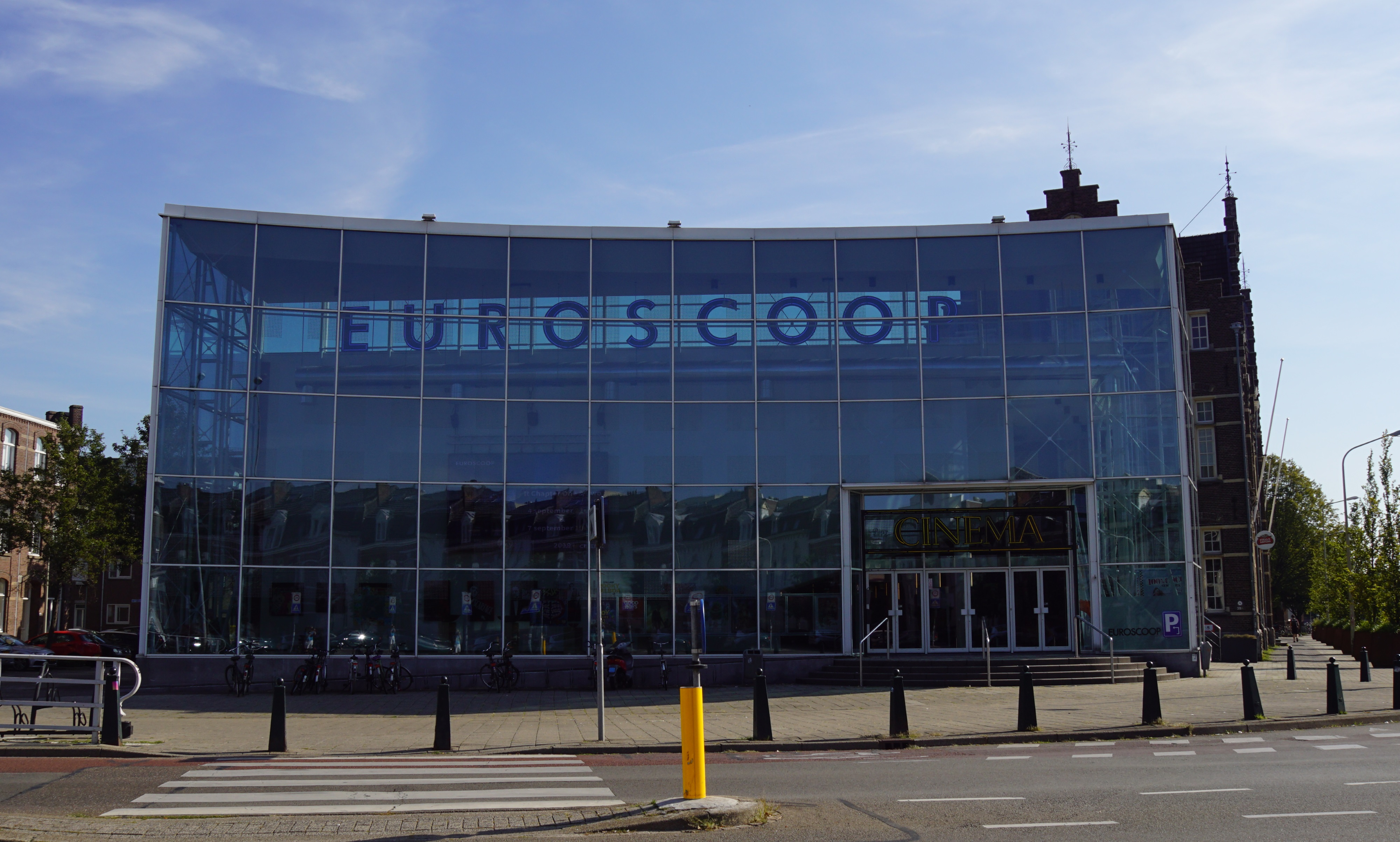 Euroscoop, Wilhelminasingel, Maastricht, The Netherlands.